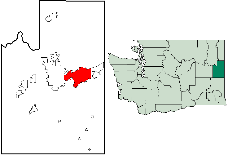 Map of Spokane Valley, Washington within Spokane County, with county highlighted on Washington map. Created by Locke Cole from United States Census Bureau maps (with inspiraton from Tradnor). Commons:Category:Spokane County, Washington